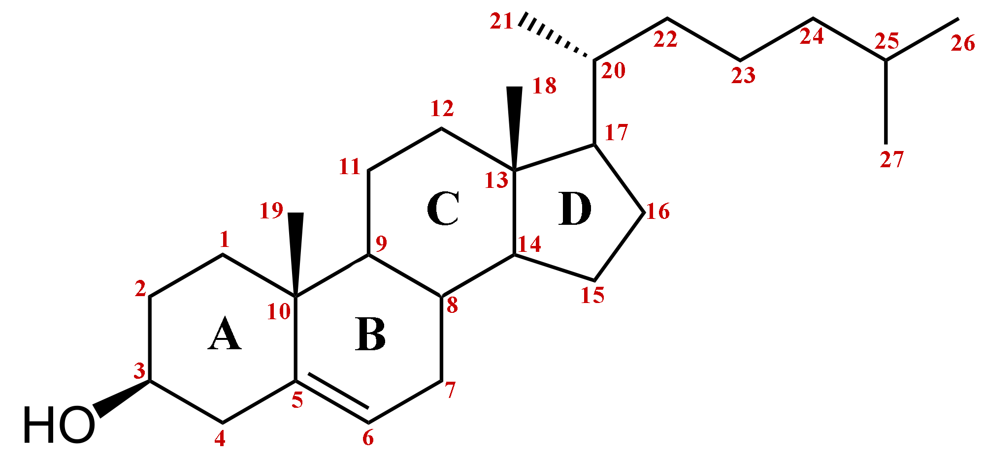 Cholesterol